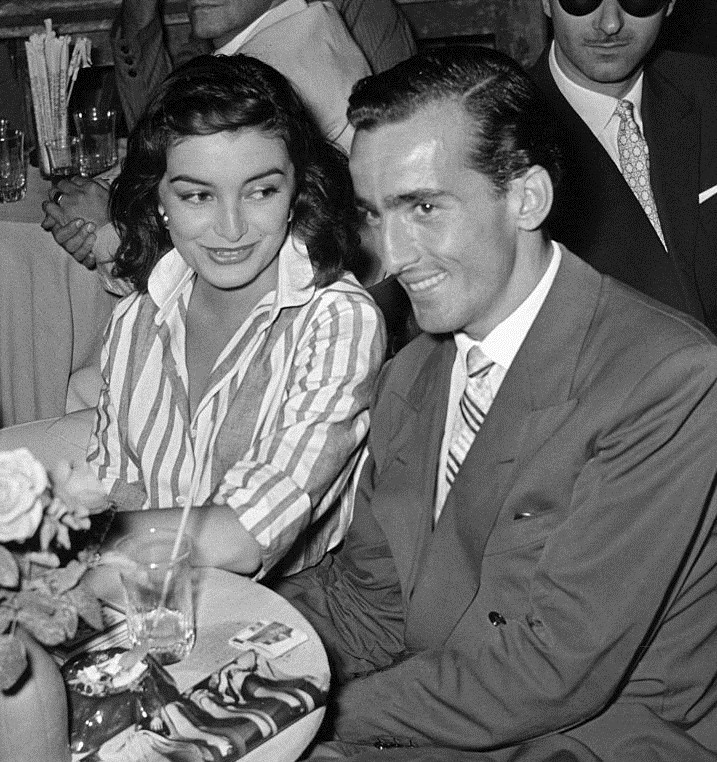 Italian prince and director Alessandro Ruspoli, also known as Dado, and Italian princess Gianna Segale smiling seated at the table. 1955